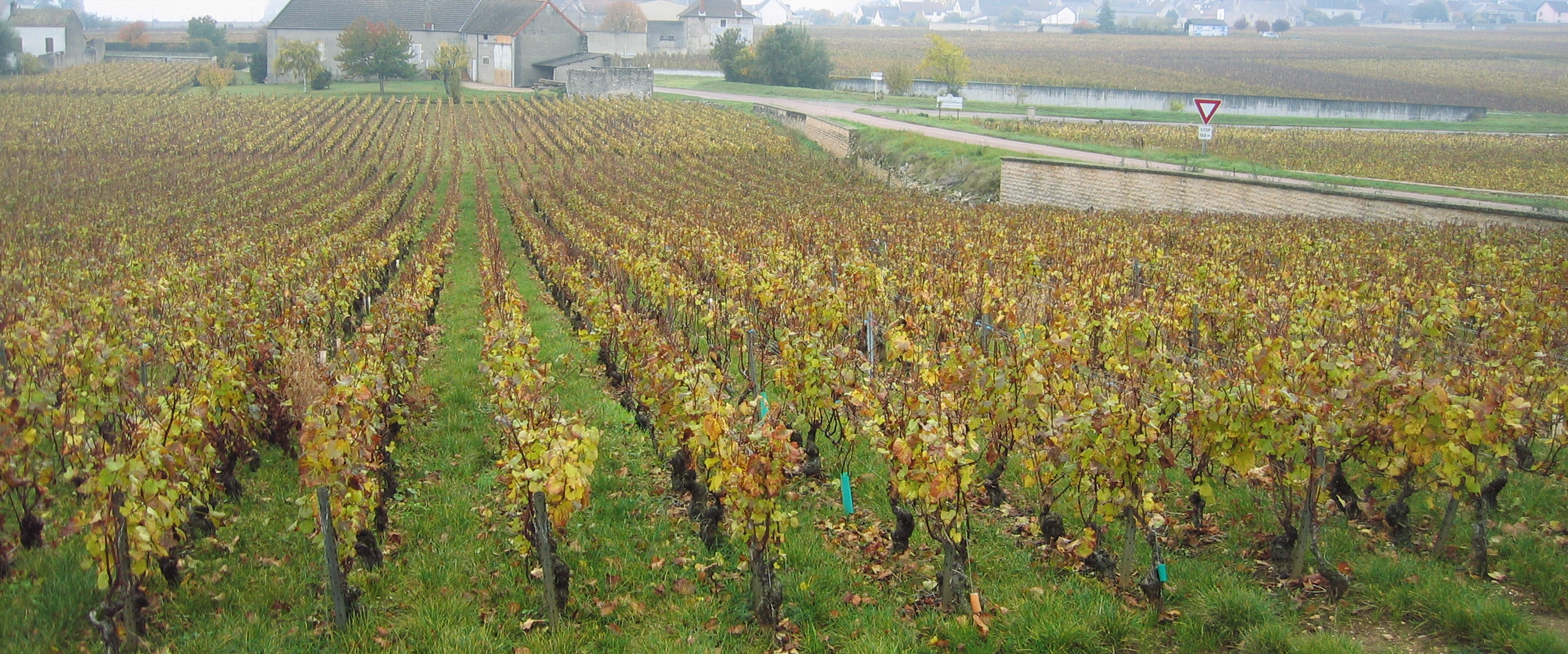 Criots-Bâtard-Montrachet, a Burgundy grand cru vineyard in Chassagne-Montrachet. The vines on flatter land closer to the buildings are in Blanchot Dessus, a village-level Chassagne-Montrachet vineyard.